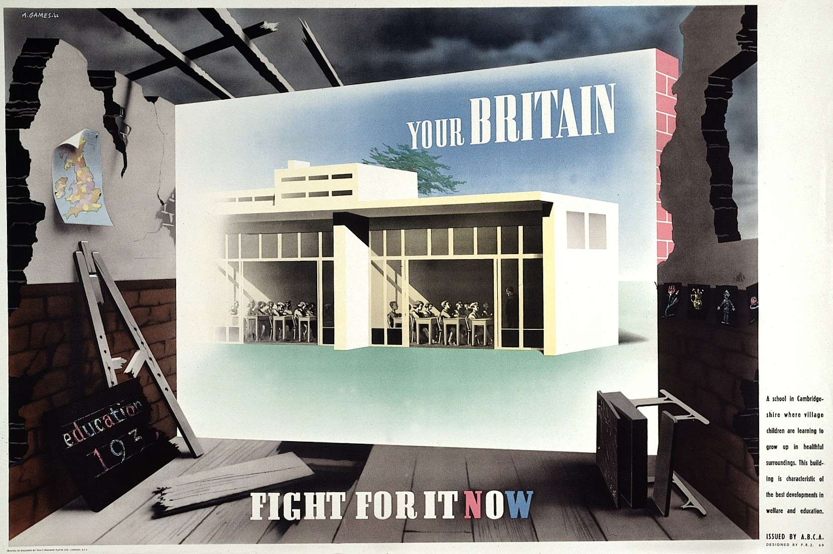 A modern school contrasted with an old school. Colour lithograph after A. Games, 1942. Iconographic Collections Keywords: Housing; Abram Games; Army Bureau of Current Affairs.